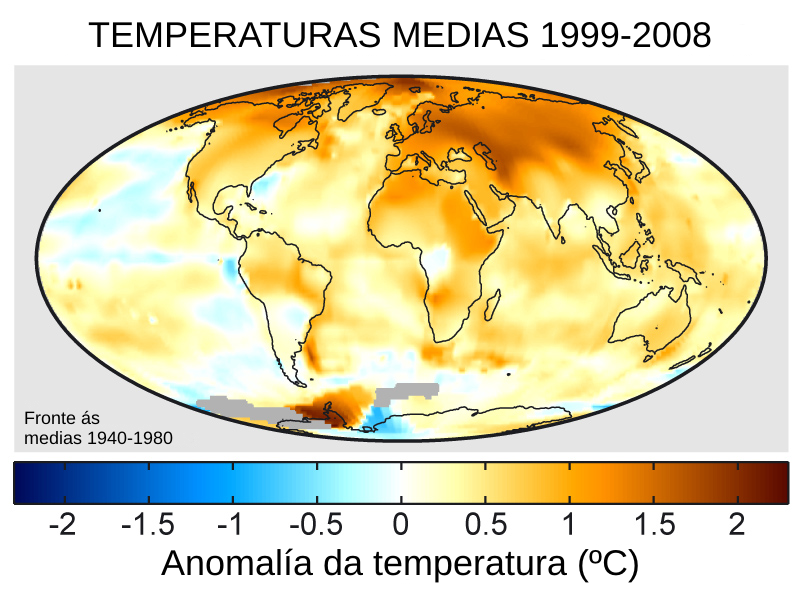 png version translated to Galician. This figure shows the difference in instrumentally determined surface temperatures between the period January 1999 through December 2008 and "normal" temperatures at the same locations, defined to be the average over the interval January 1940 to December 1980. The average increase on this graph is 0.48 °C, and the widespread temperature increases are considered to be an aspect of global warming.